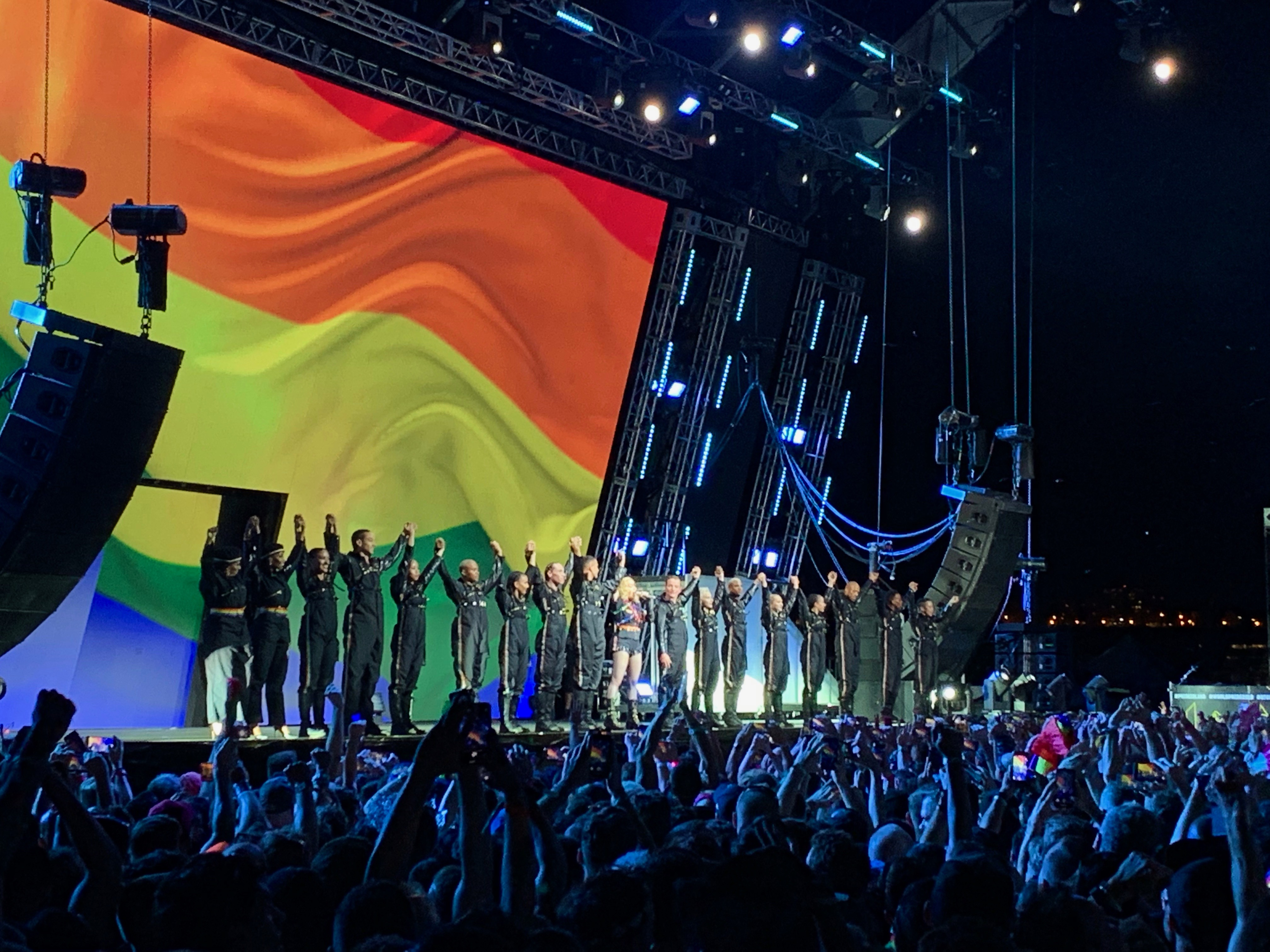 Madonna performing at the Stonewall 50 – WorldPride NYC 2019